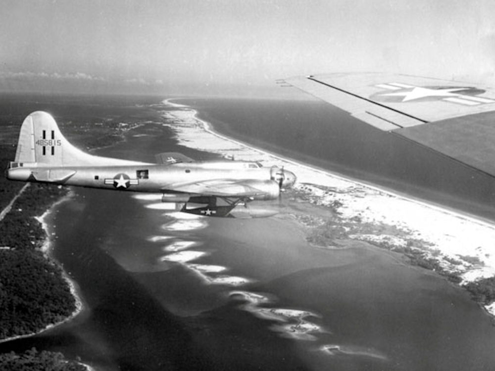 JB-2 mounted under wing of MB-17 44-85815 for air launch over Gulf of Mexico